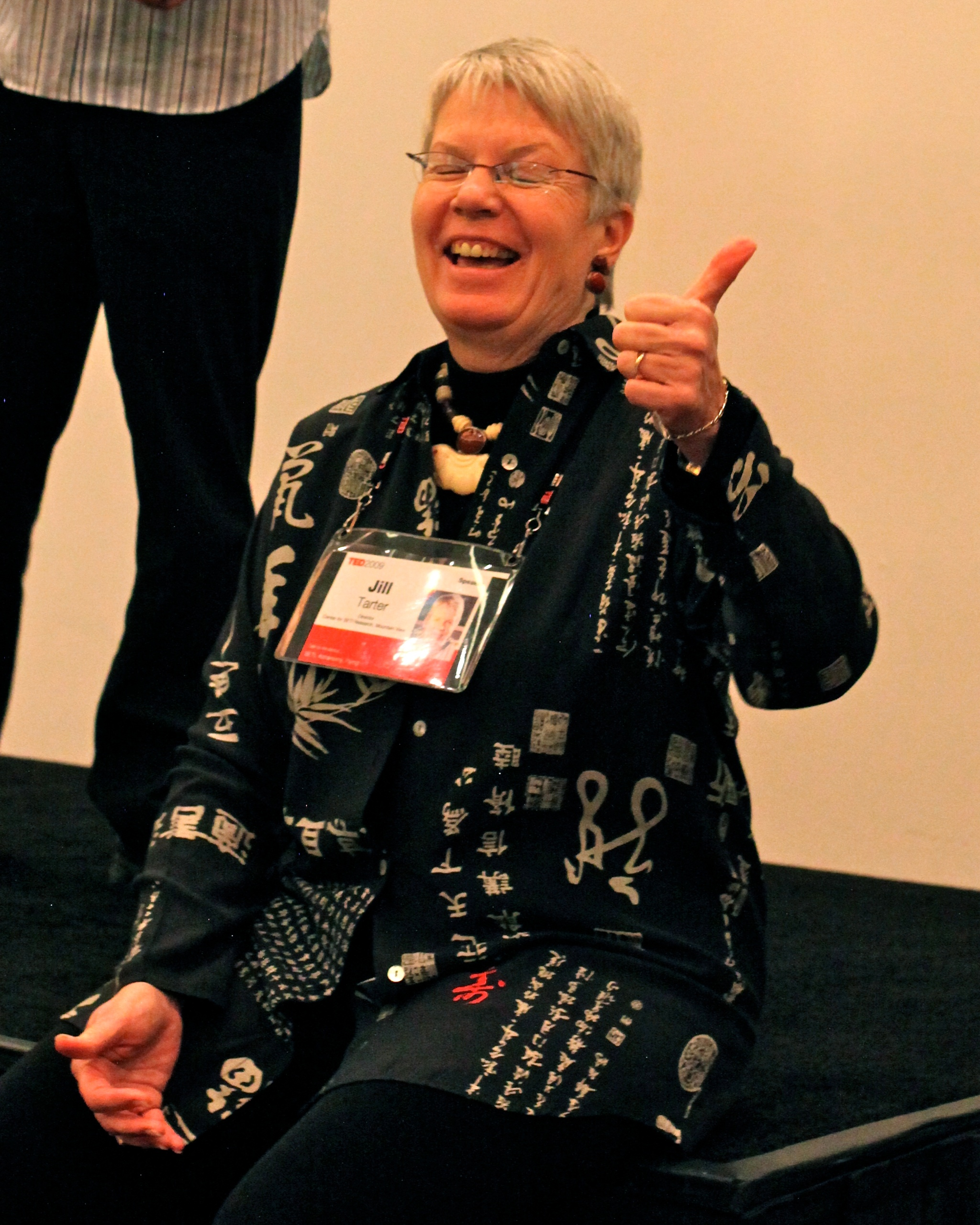 Jill Tarter at TED